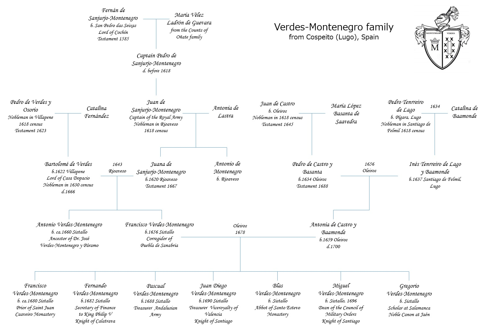 This is the family tree of the earliest members of the Verdes-Montenegro family, some of whom held important government positions in the XVIIIth century Spain.